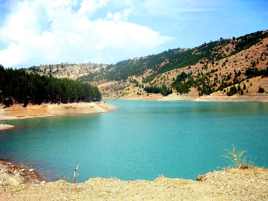 Karakız